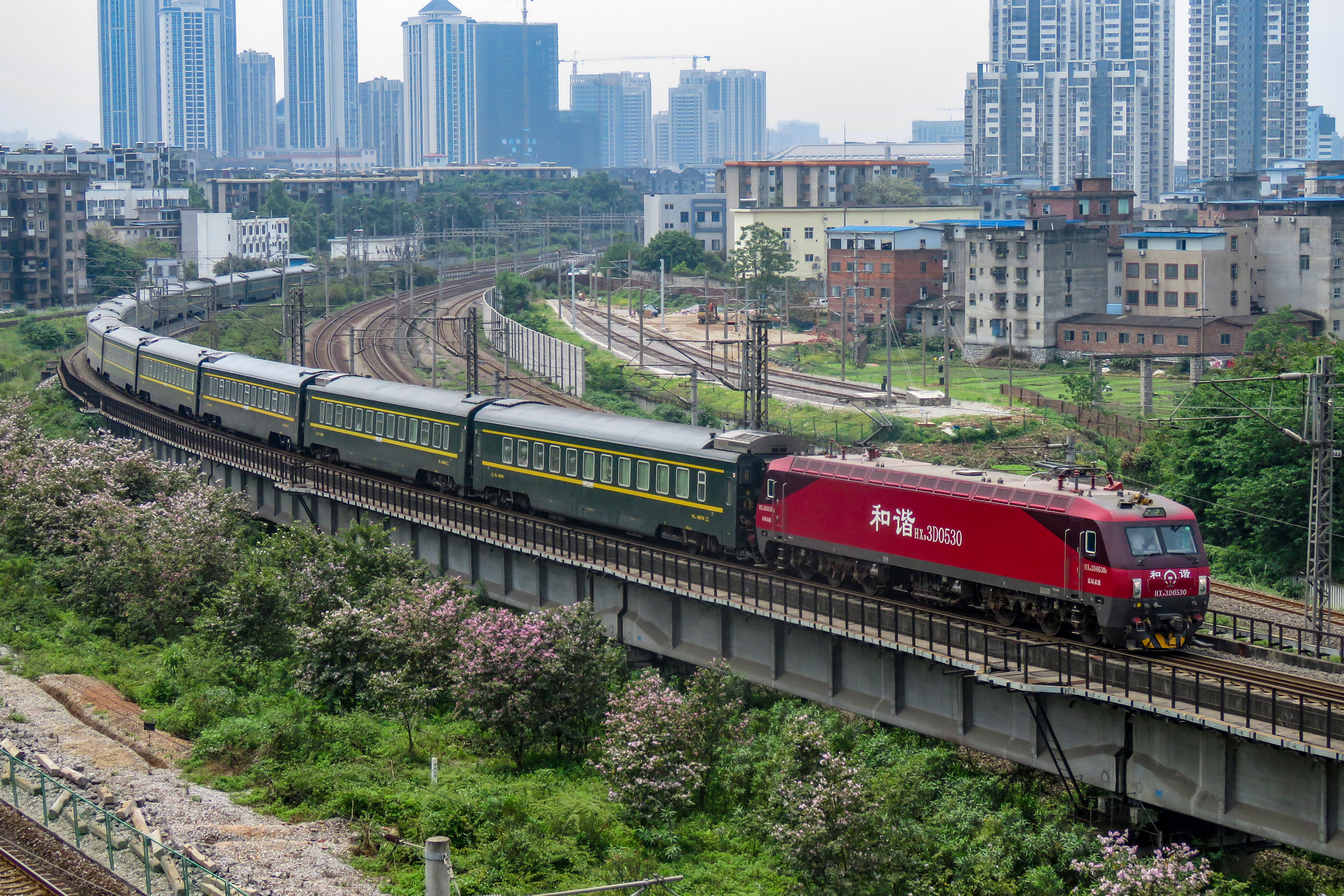 Z336 from Nanning to Baotou. The first train I spotted at Guangya is right here.